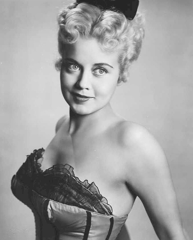 Photo of Laurie Anders the 1953 film The Marshal's Daughter. A search was done at for this title. There were no listings for The Marshal's Daughter. There's no evidence that copyright continues to be claimed on the film or any items pertaining to it.